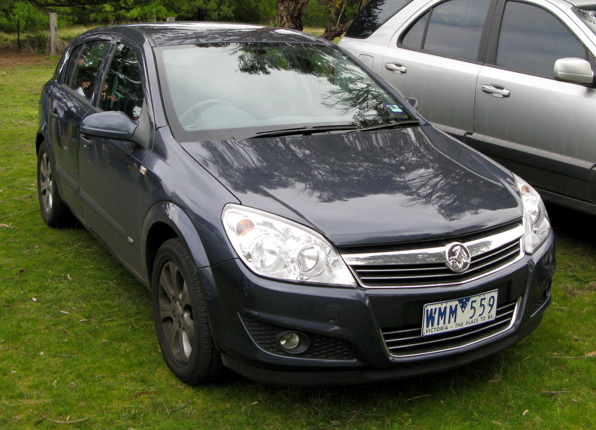 2008 Holden Astra (AH MY08.5) CD 60th Anniversary 5-door hatchback, photographed on the Great Ocean Road, near Fairhaven, Victoria, Australia.